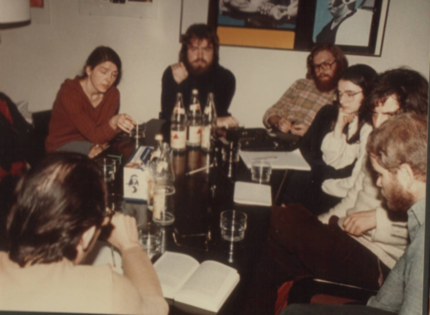 Guests visiting Holzkamp-Osterkamp